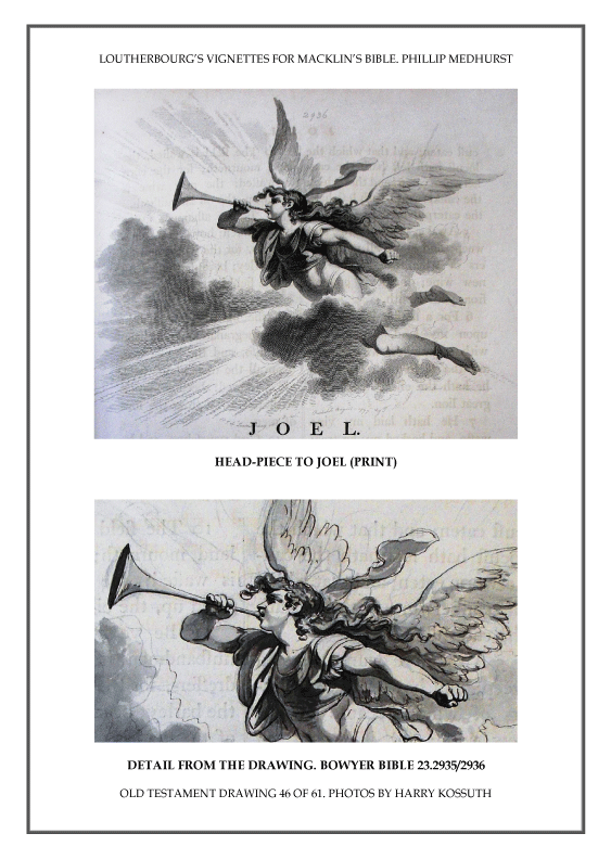 Head-piece to Joel. Joel 2:1. Vignette with an angel trumpeting to left; letterpress in two columns below and on verso. 1797. Inscriptions: Lettered below image with production detail: "P J de Loutherbourg invt et delt". "J Fitler sculp" and publication line: "Published August 1 1797 by T Macklin London". Print made by James Fittler. Dimensions: height: 488 millimetres (sheet); width: 395 millimetres (sheet).